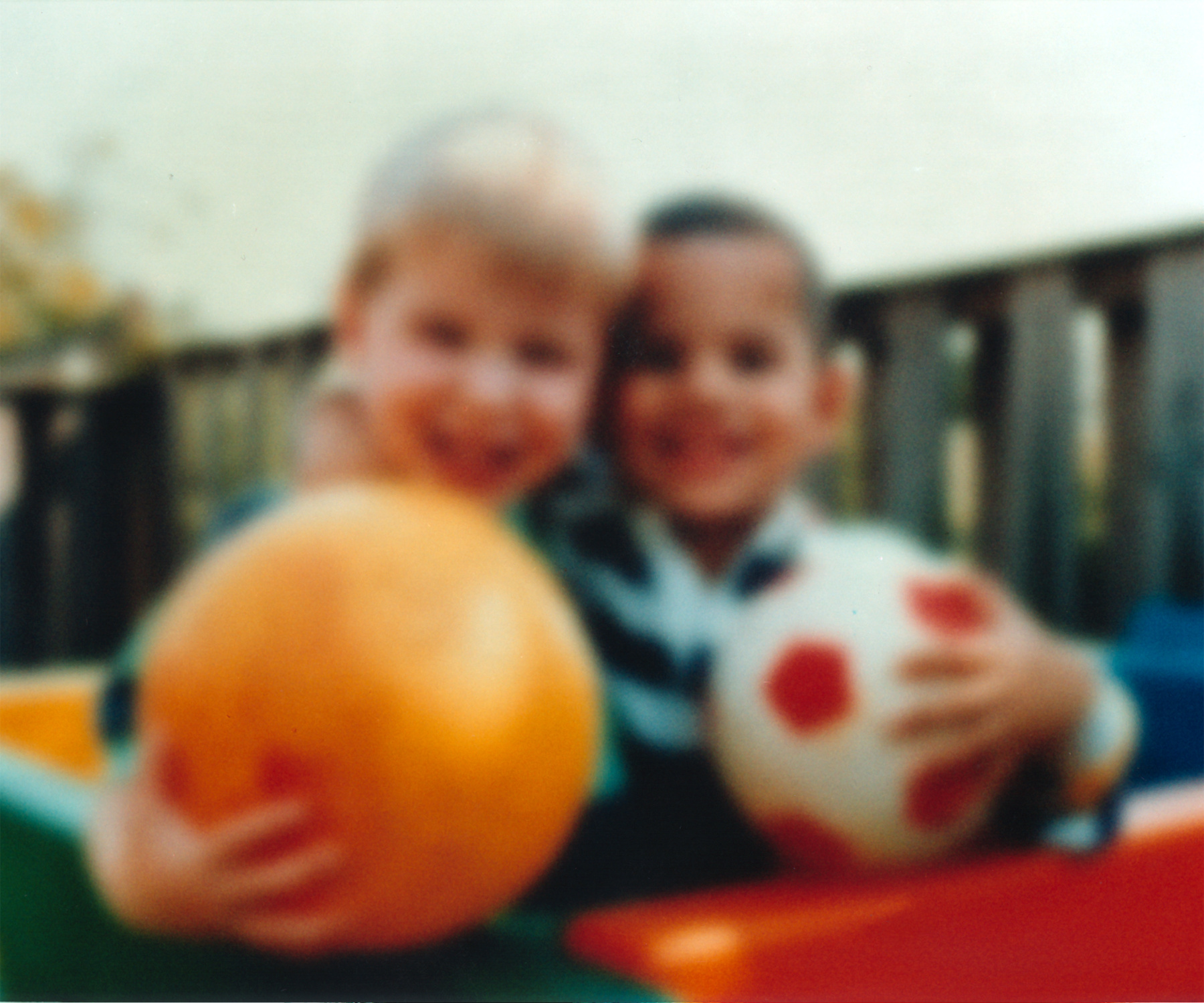 A scene as it might be viewed by a person with cataract.